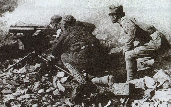 Chinese machine gun nest in the outskirts of the Wuhan area during the Battle of Wuhan. (Chinese: 武汉外围战斗。